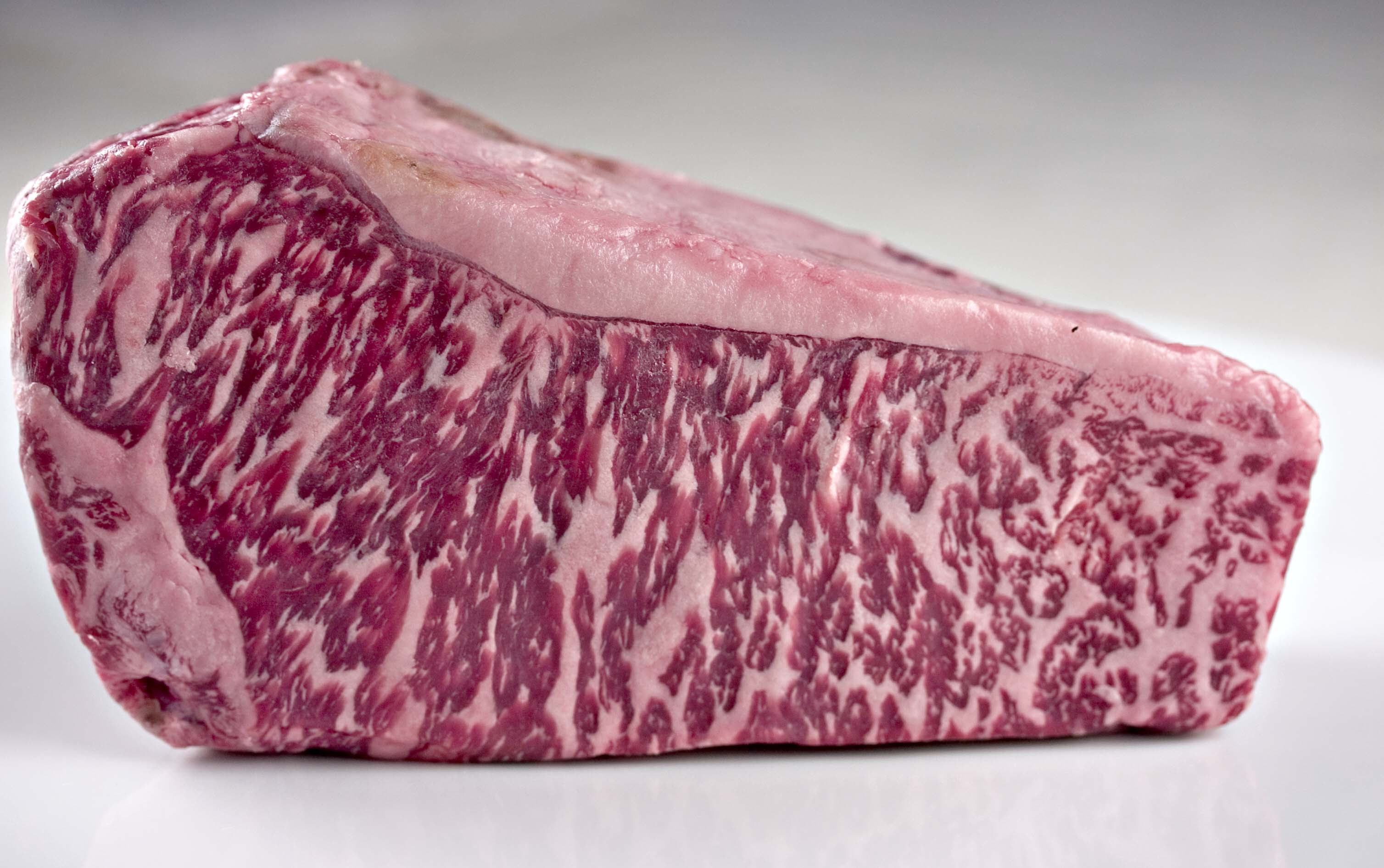 Wagyu Strip Steak